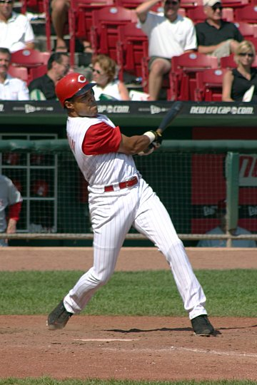 Barry Larkin, Cincinnati Reds, 2004, by Rick Dikeman 01:45, 16 September 2004 . . Rdikeman . . 360×540 (47 KB)